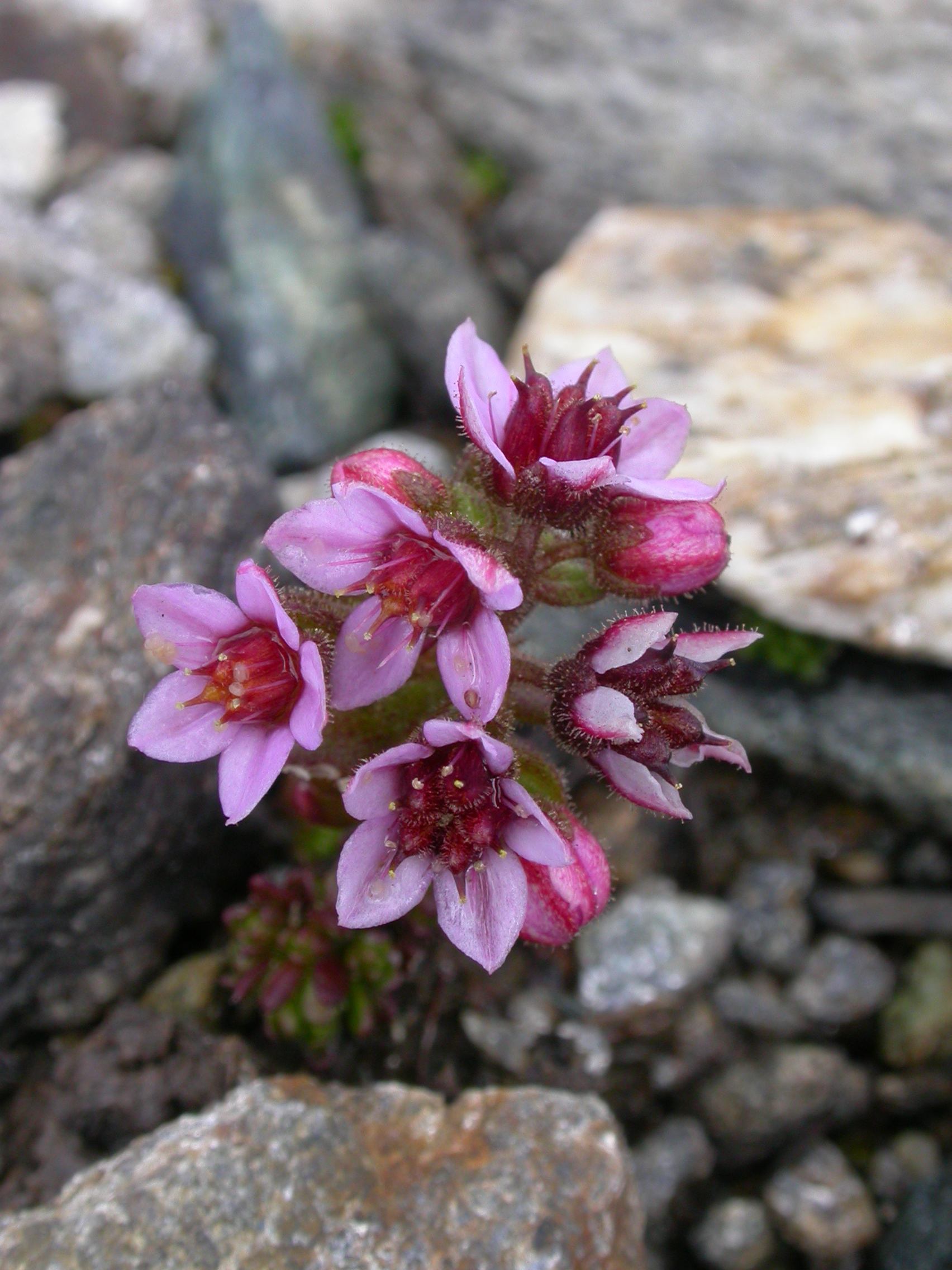 Sedum villosum Zermatt, beneath Gornergrat (Kanton Wallis, Switzerland), 2700 m Author: Barbara Studer – own photograph Date: 2.08.06